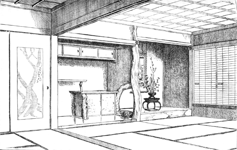 Image entitled "Guest room in Hachi-Ishi" from Japanese homes and their surroundings by Edward S. Morse, first published in 1886.